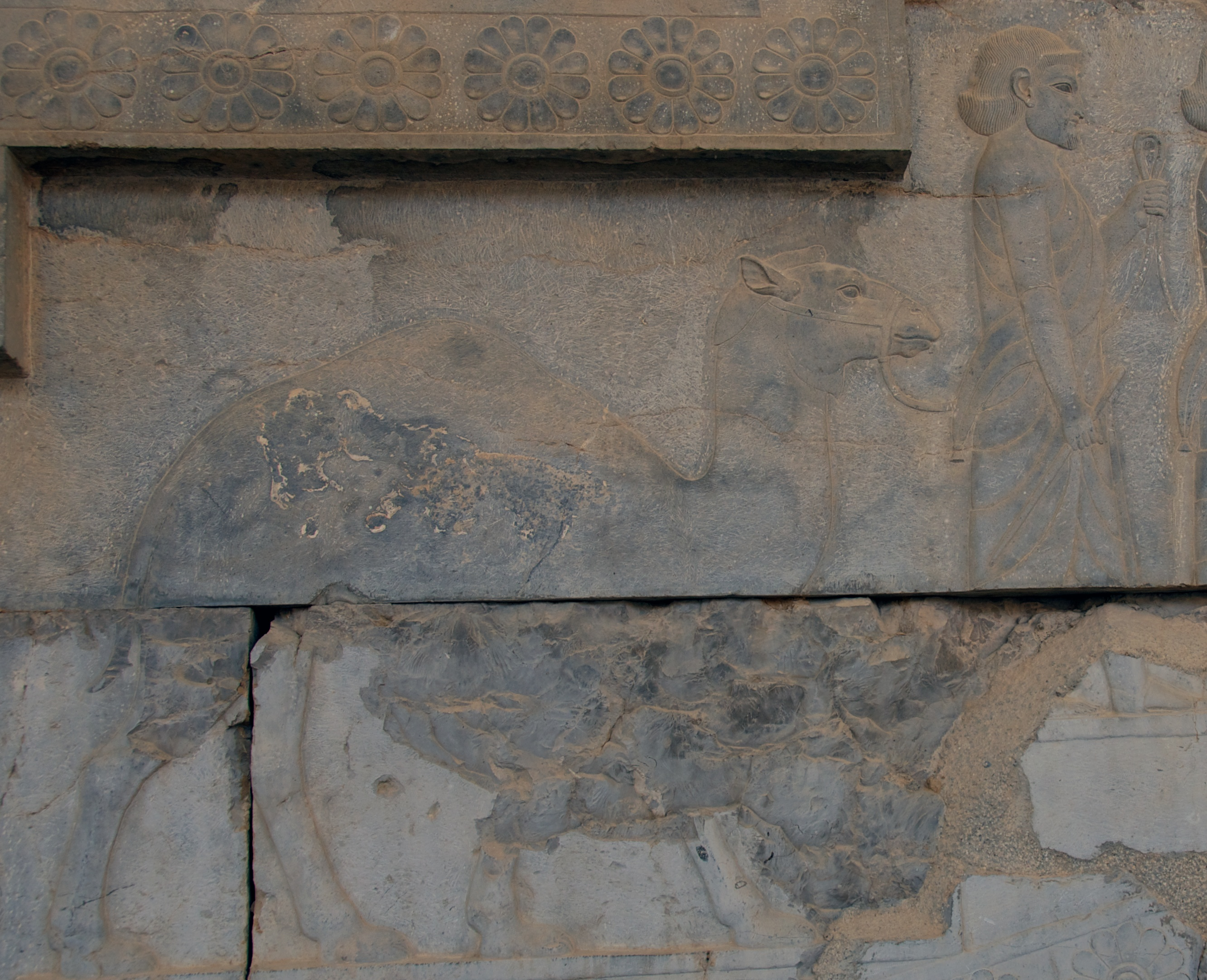 According to the Lonely Planet guide to Iran, "Most impressive of all, however, and among the most impressive historical sights in all of Iran, are the bas-reliefs of the Apadana Staircase on the eastern wall [of the Apadana Palace]." "The panels at the southern end [of the Apadana Staircase] are the most interesting, showing 23 delegations bringing their tributes to the Achaemenid king." "This rich record of the nations of the time ranges from the Ethiopians in the bottom left center, through a climbing pantheon of, among other peoples, Arabs, Thracians, Indians, Parthians and Cappadocians, up to the Elamites and Medians at the top right." According to Donald N. Wilber's book Persepolis, The Archaeology of Parsa, Seat of the Persian Kings, this scene depicts "the Arabaya (Arabians), who are shown in distinctive garments and are accompanied by a dromedary." Persepolis, Iran